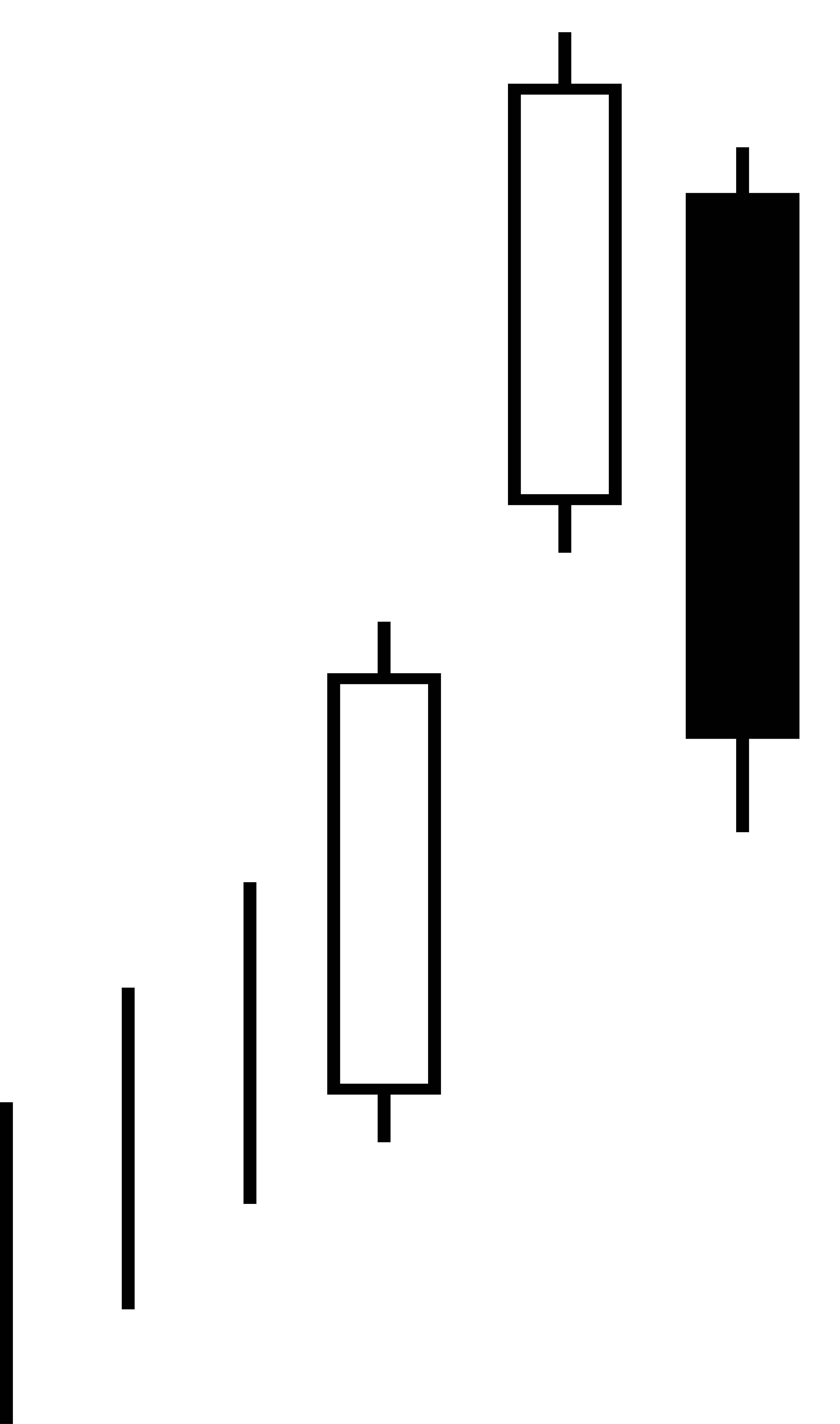 Bullish Upside Gap Three Methods